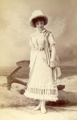 Photo of Alice Burville as Arabella Lane in Billee Taylor, 1881